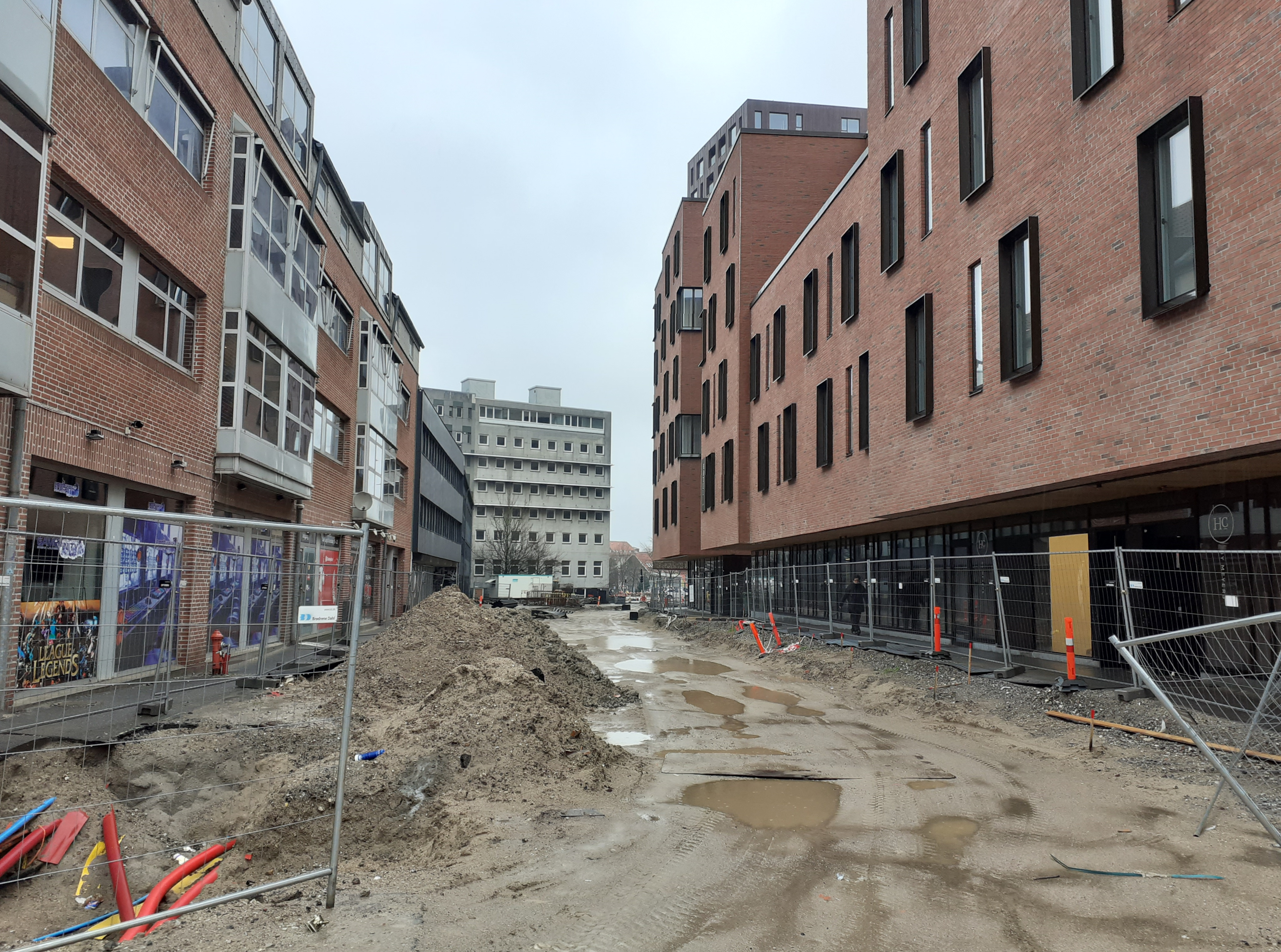 Construction of Odeon Station of Odense Letbane on the former main street Thomas B. Thriges Gade in Odense in Denmark.